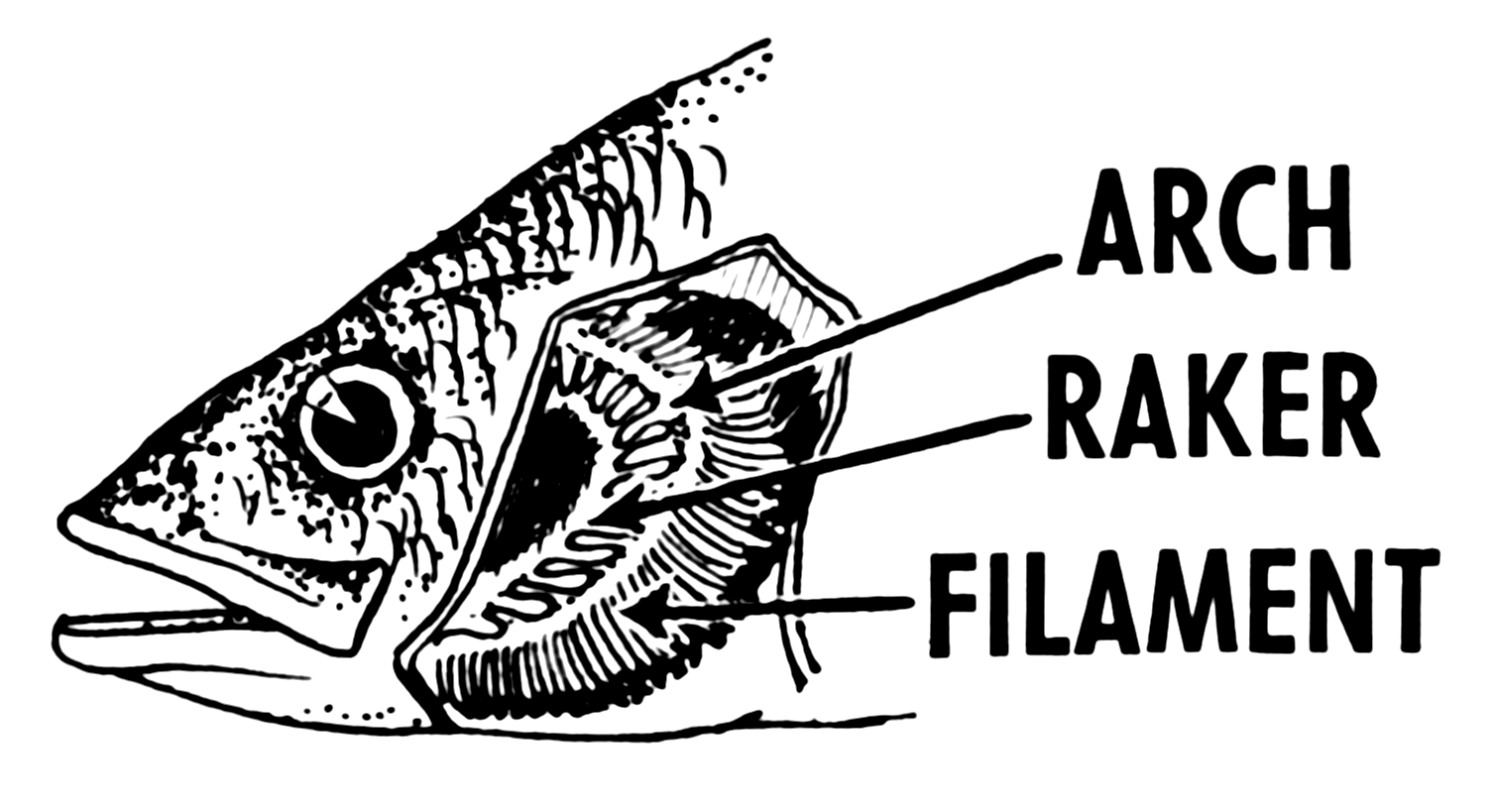 Line art drawing of a Gill.